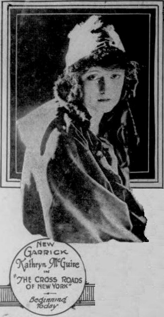 Newspaper advertisement for the American comedy film The Crossroads of New York (1922) with Kathryn McGuire, overlapping ads for other films removed from image, on page 8 of the July 22, 1922 Duluth Herald.